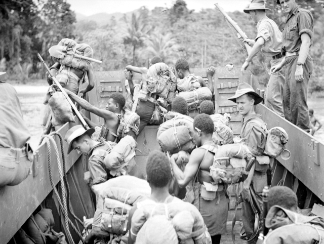 JACQUINOT BAY, NEW BRITAIN. 1944-11-06. SERGEANT T.J. CHAPPLE AND SERGEANT C.O. CANNING WITH THE NATIVE SOLDIERS OF B COMPANY, 1ST NEW GUINEA INFANTRY BATTALION GOING ASHORE FROM A LANDING BARGE AT POMIO VILLAGE WHERE THE UNIT IS TO ESTABLISH ITS PERMANENT HEADQUARTERS.